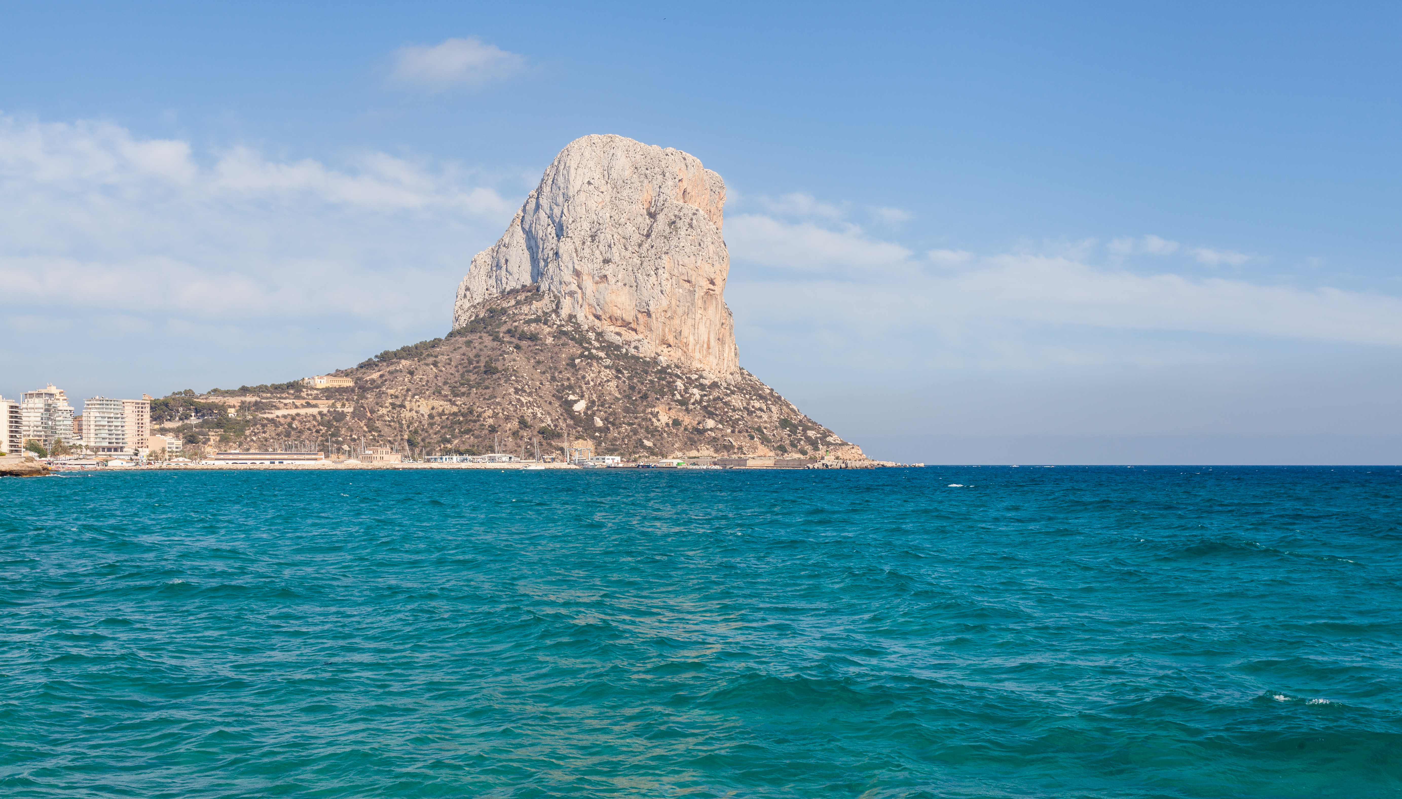 Rock of Ifach, Calpe, Spain